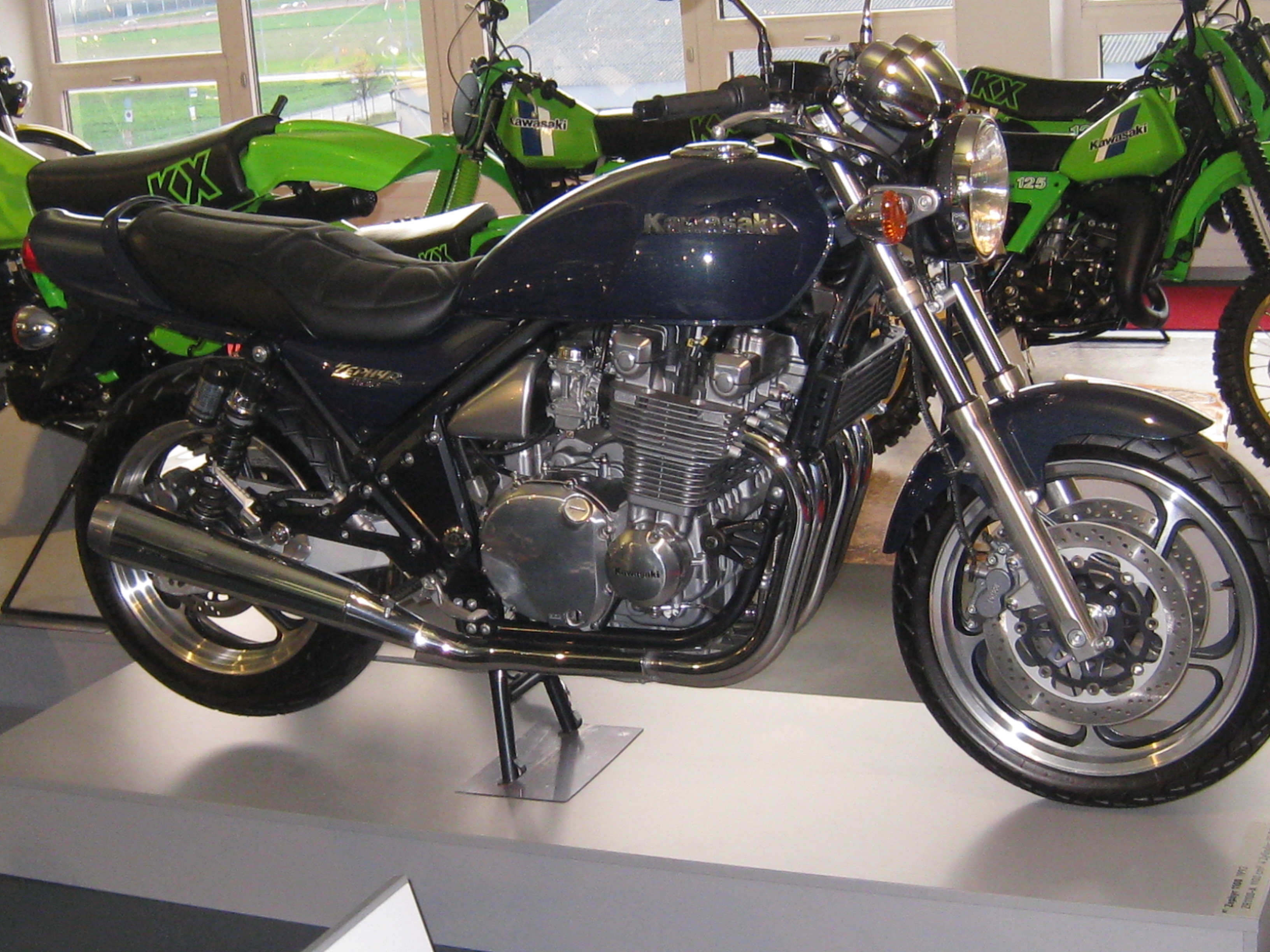 Kawasaki motorcycle @ FIBAG Switzerland